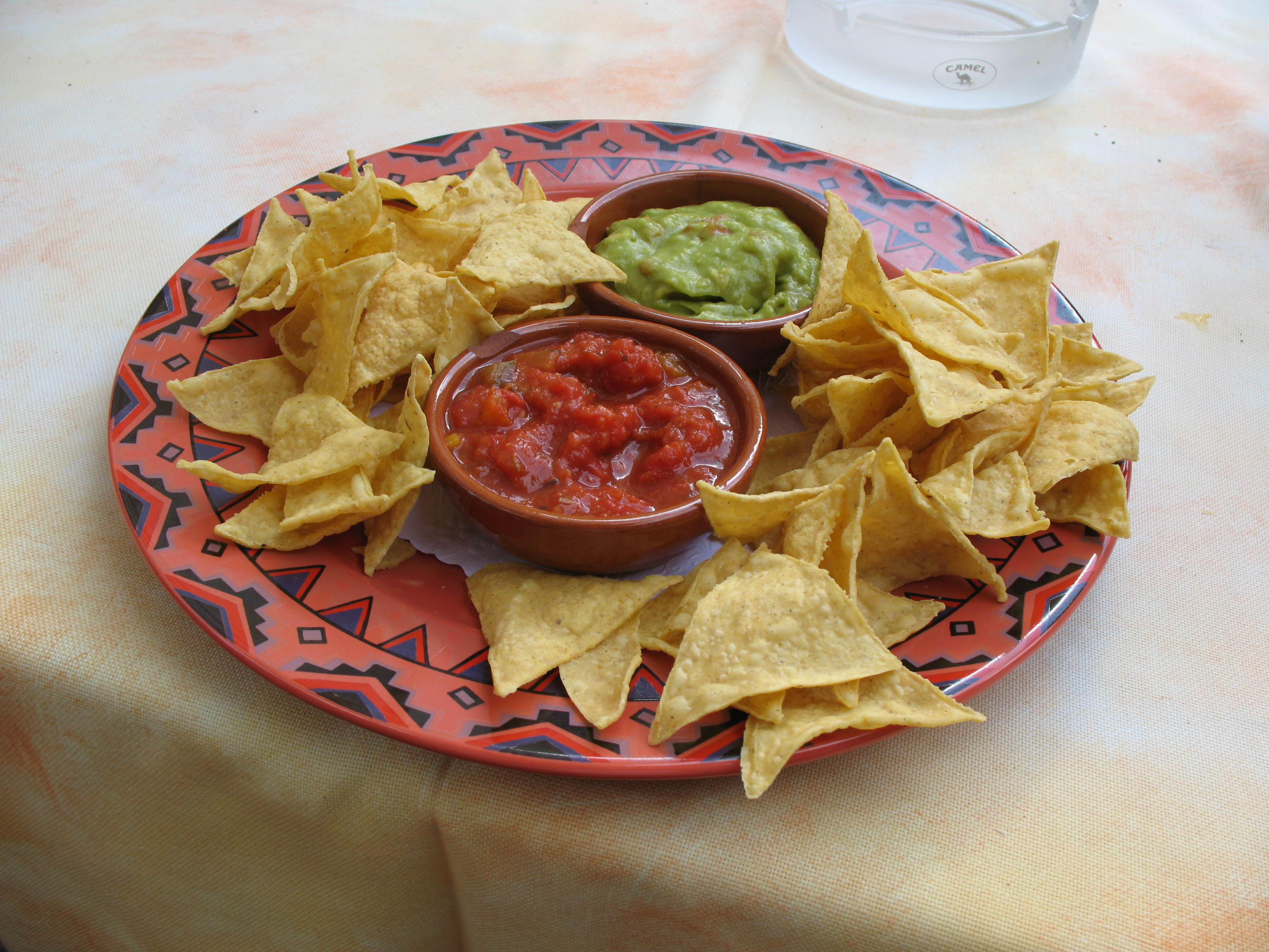 Tortilla chips, salsa, and guacamole from the Restaurant Weisshorn, Zermatt, Switzerland